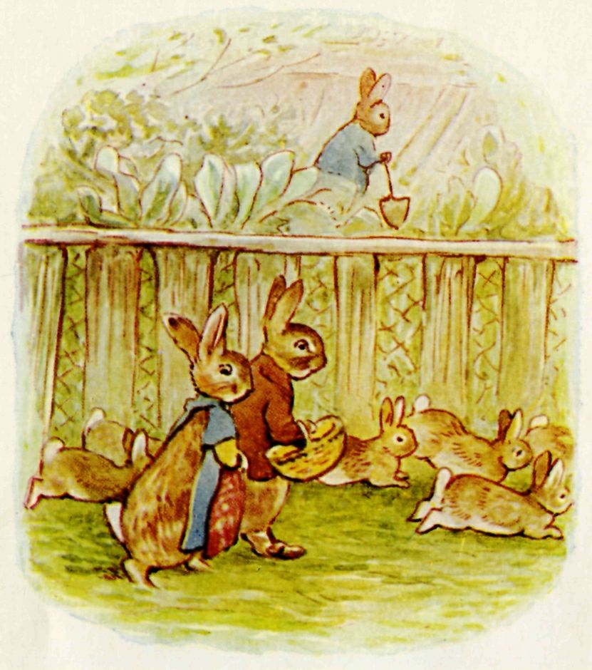 Benjamin and Flopsy Bunny - Beatrix Potter characters